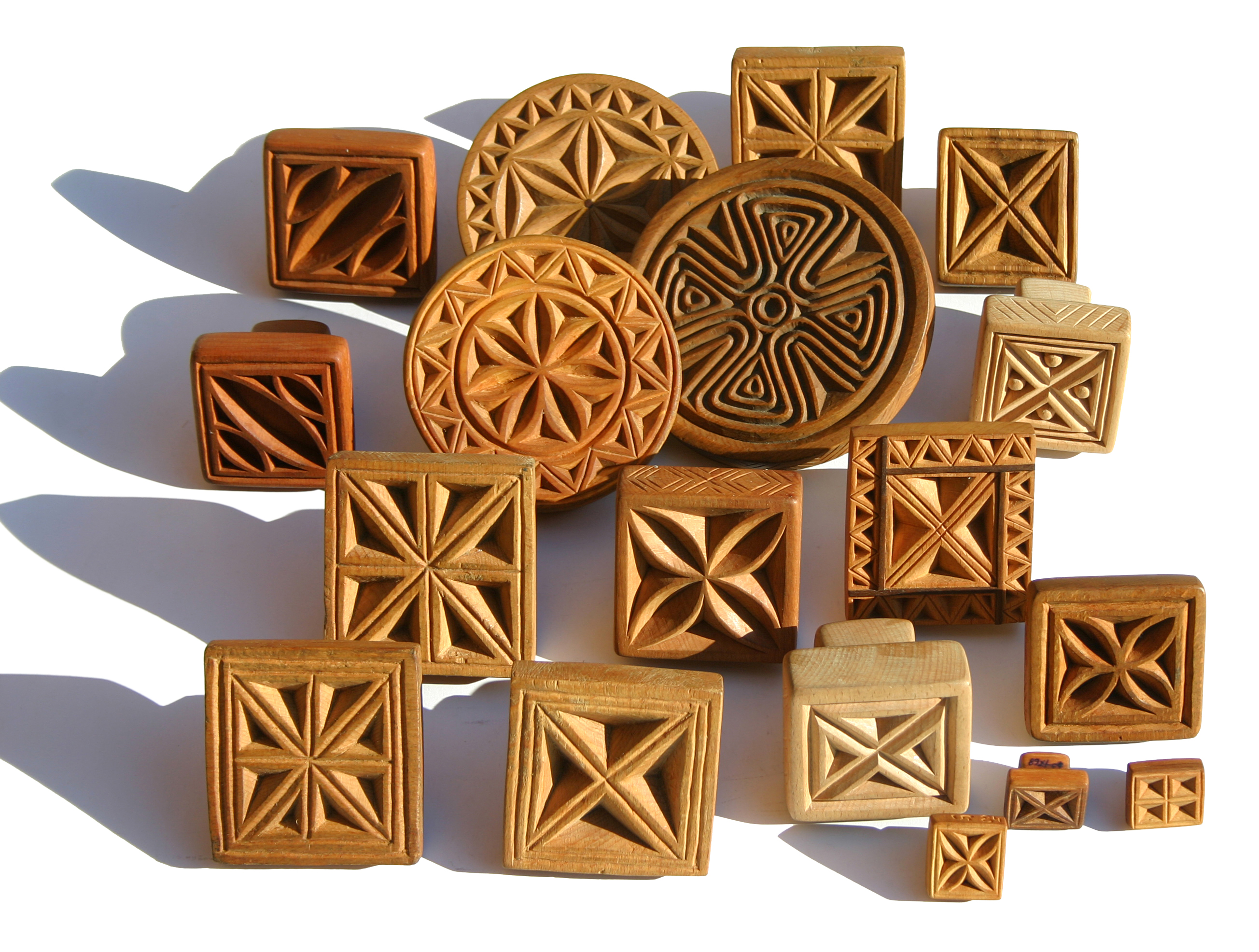 Gata stamp